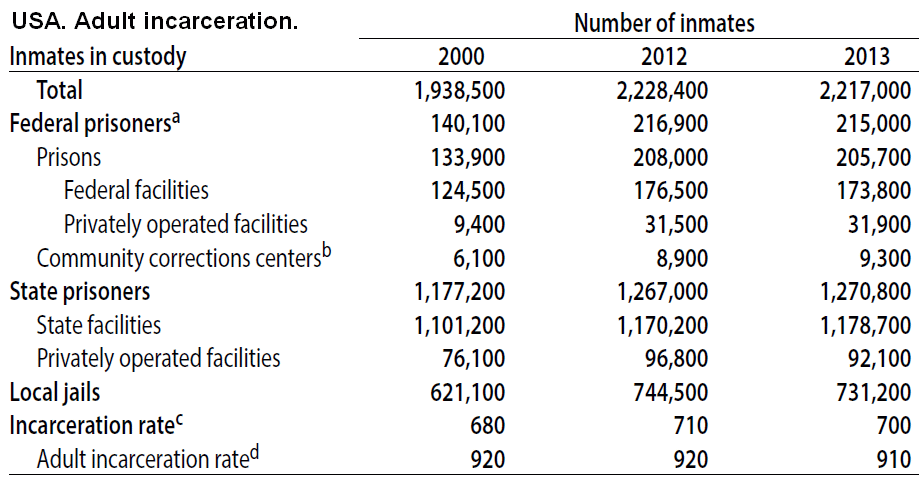 USA. Adult inmates held in custody in state or federal prisons or in local jails. Also, incarceration rates per 100,000. This is for adult inmates or people tried as adults.